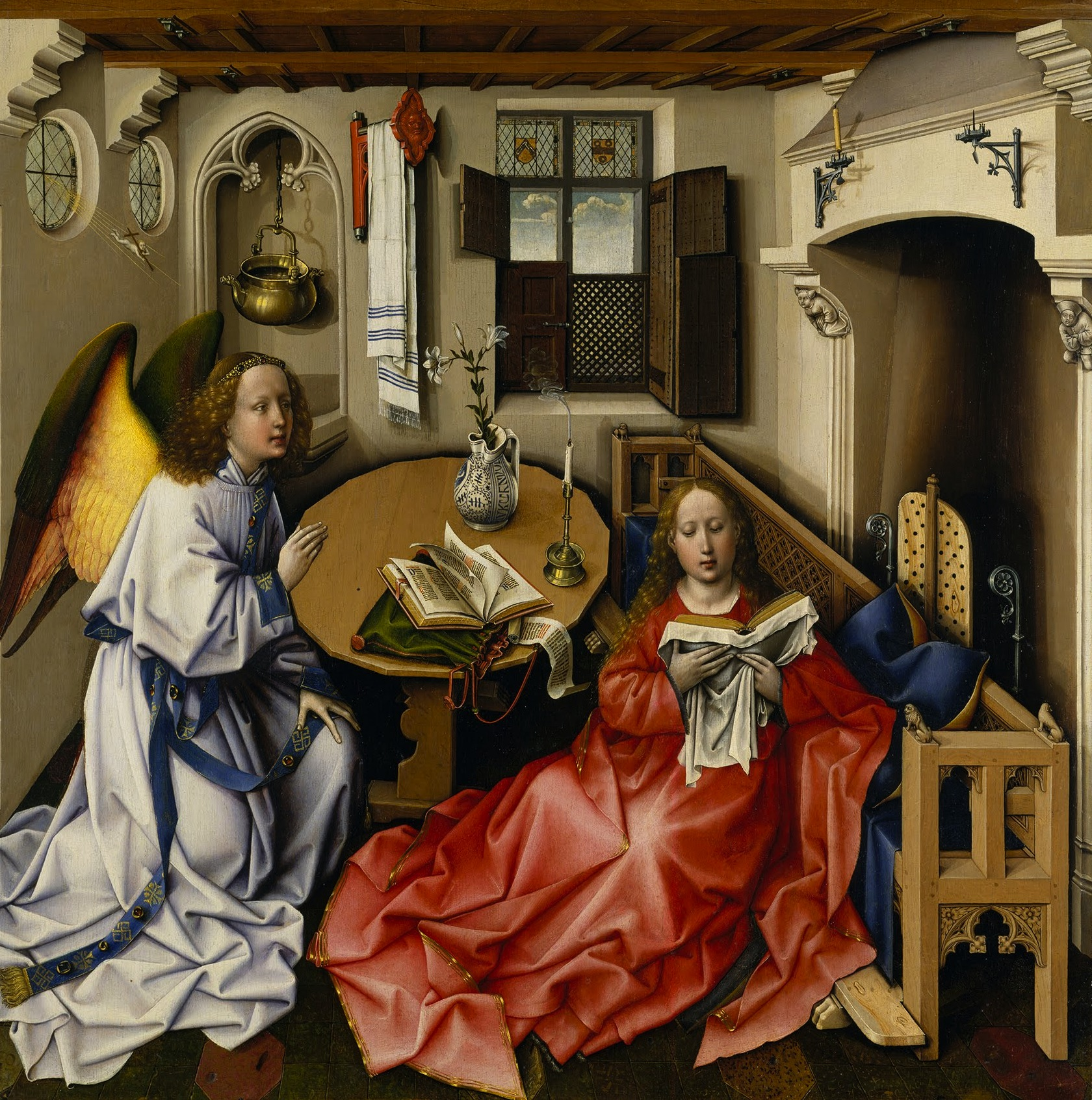 crop of center panel showing Annunciation scene